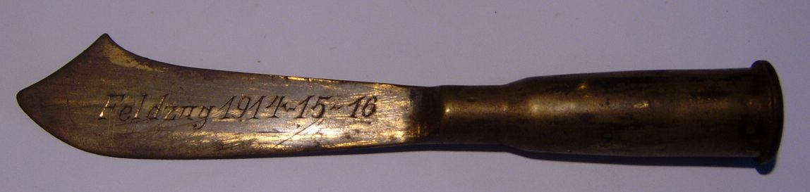 paper knife